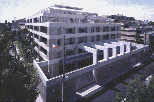 Phillipinnes embassy in Roppongi, Tokyo